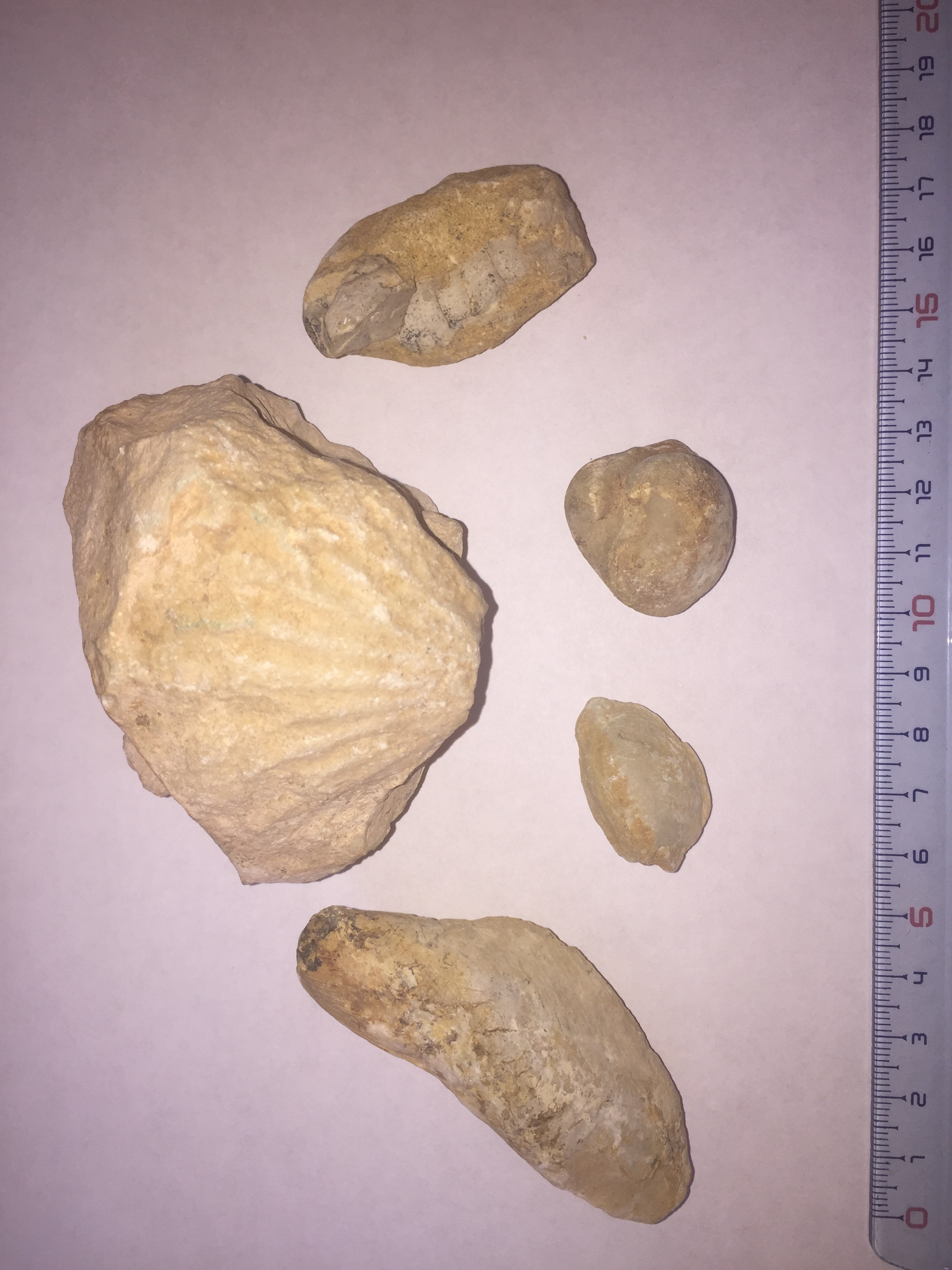 Fossils found in Ksar Hadada in Tunisia in 2011.